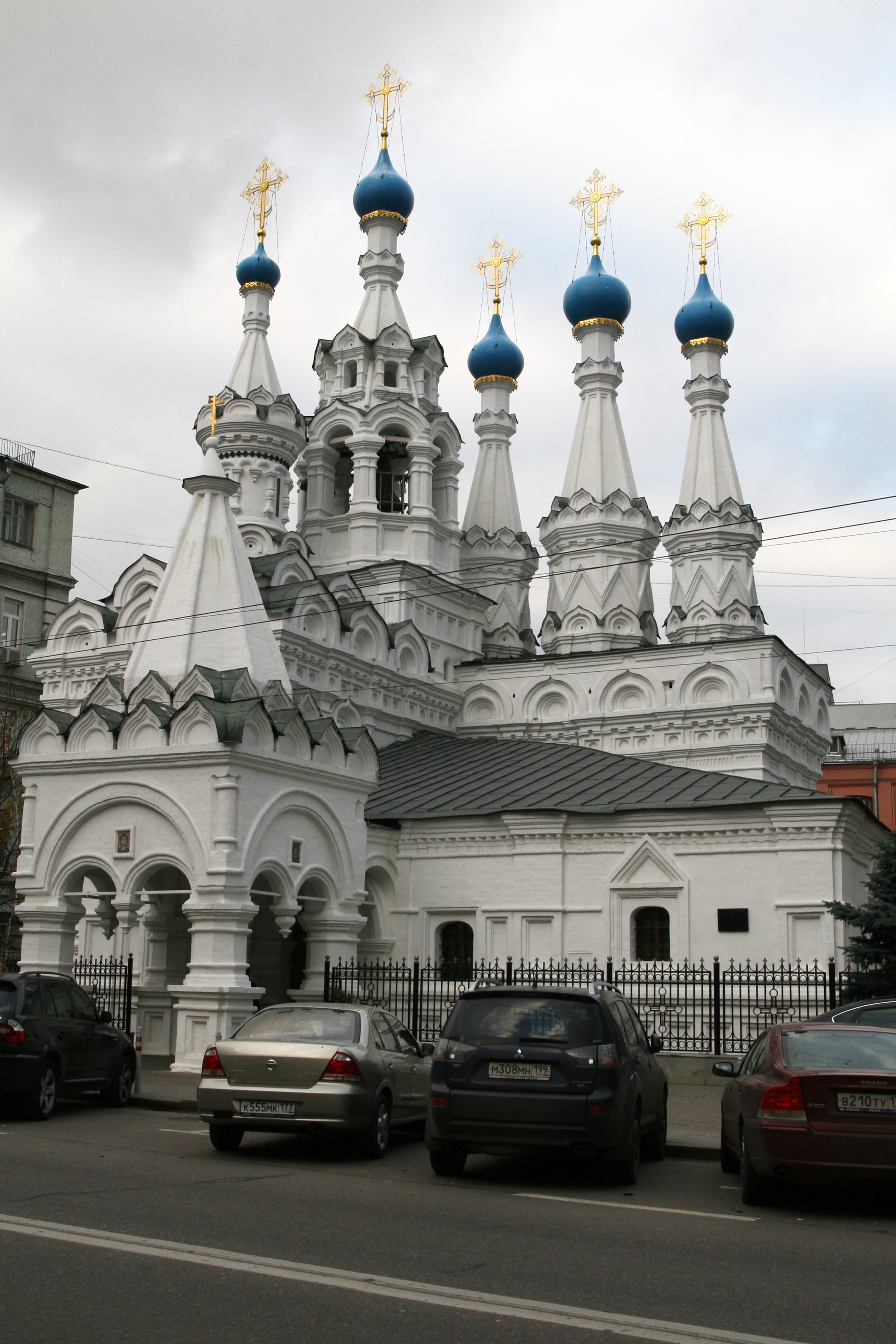 Nativity Church at Putinki. Moscow, Malaya Dmitrovka Street